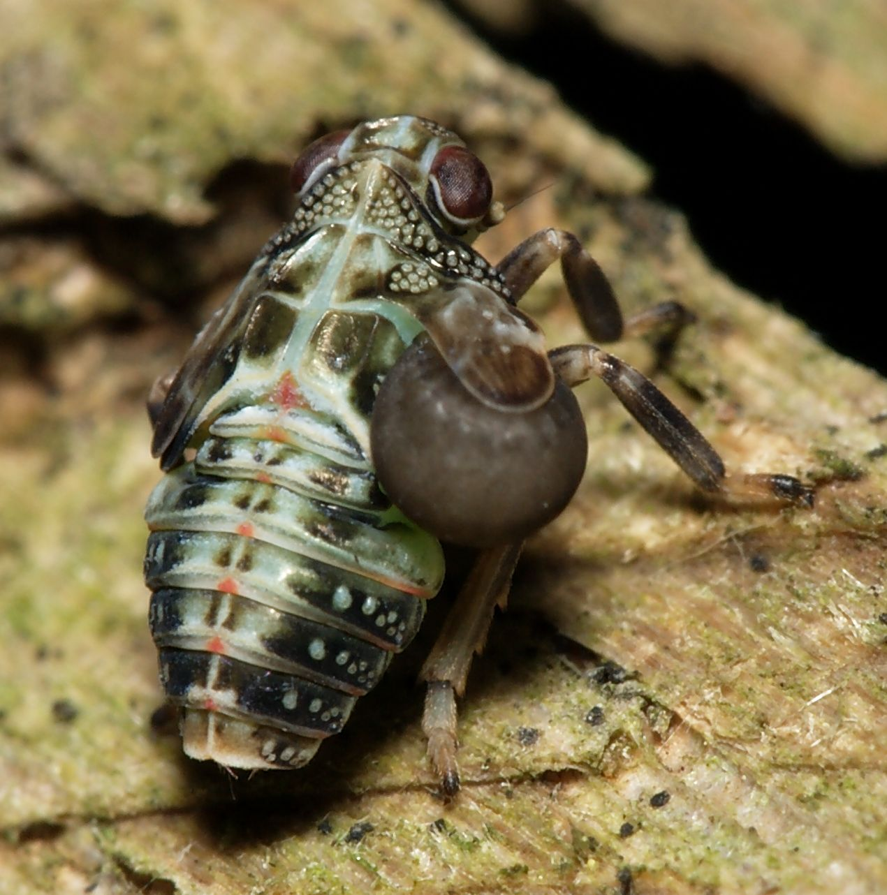 nymph of Issus coleoptratus with protruding larval sac of parasitoid Dryinidae (Dryininae). From Königsforst near Cologne, Germany.